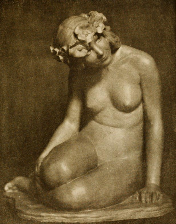 Sculpture by Jo Mora shown in 1916 after the Panama–Pacific International Exposition in San Francisco. Photograph from a book about the art published in 1916.